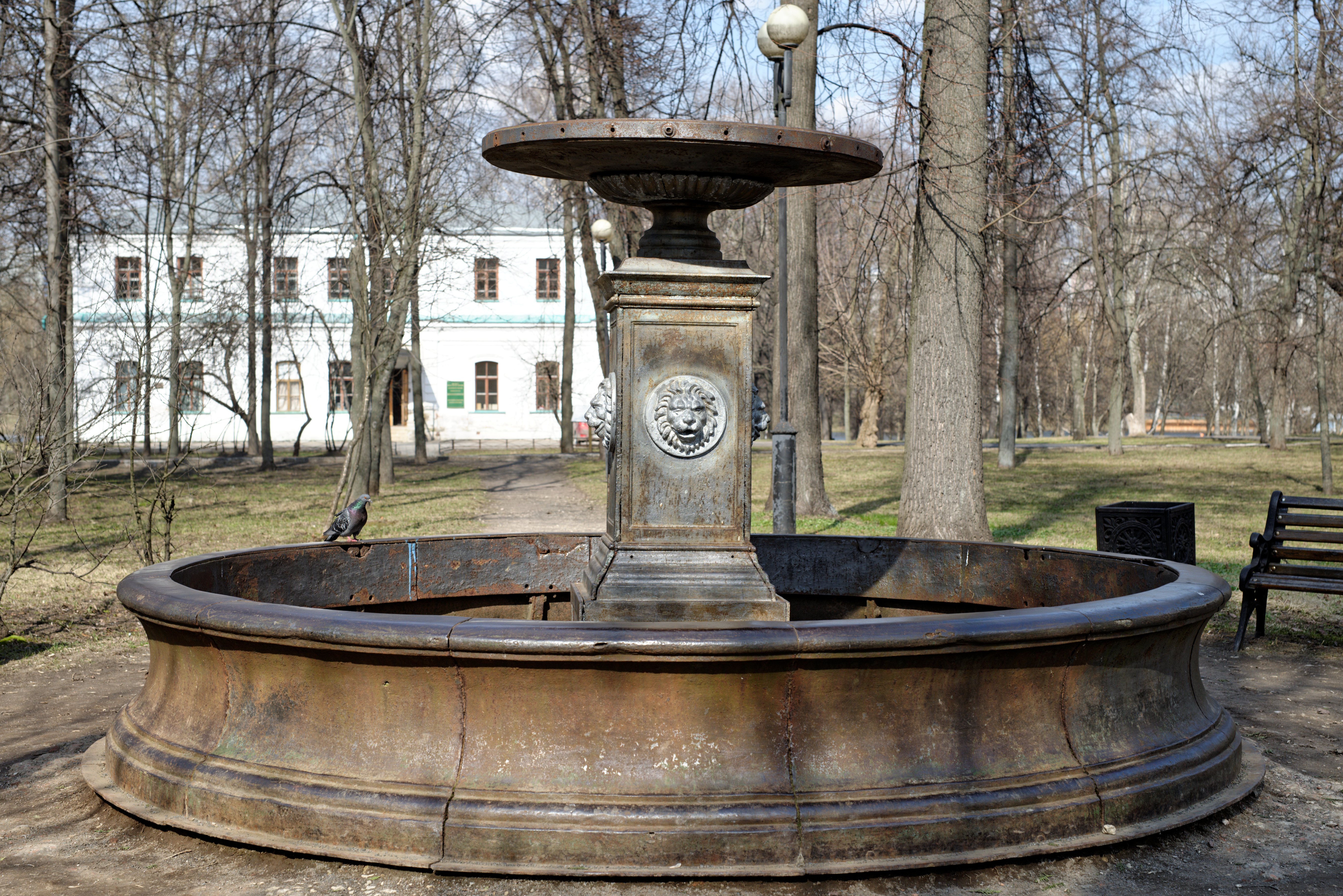 Fountain of 1859 in the manor Izmailovo Moscow. Made of cast iron in the workshop Izmailovo military alms-house